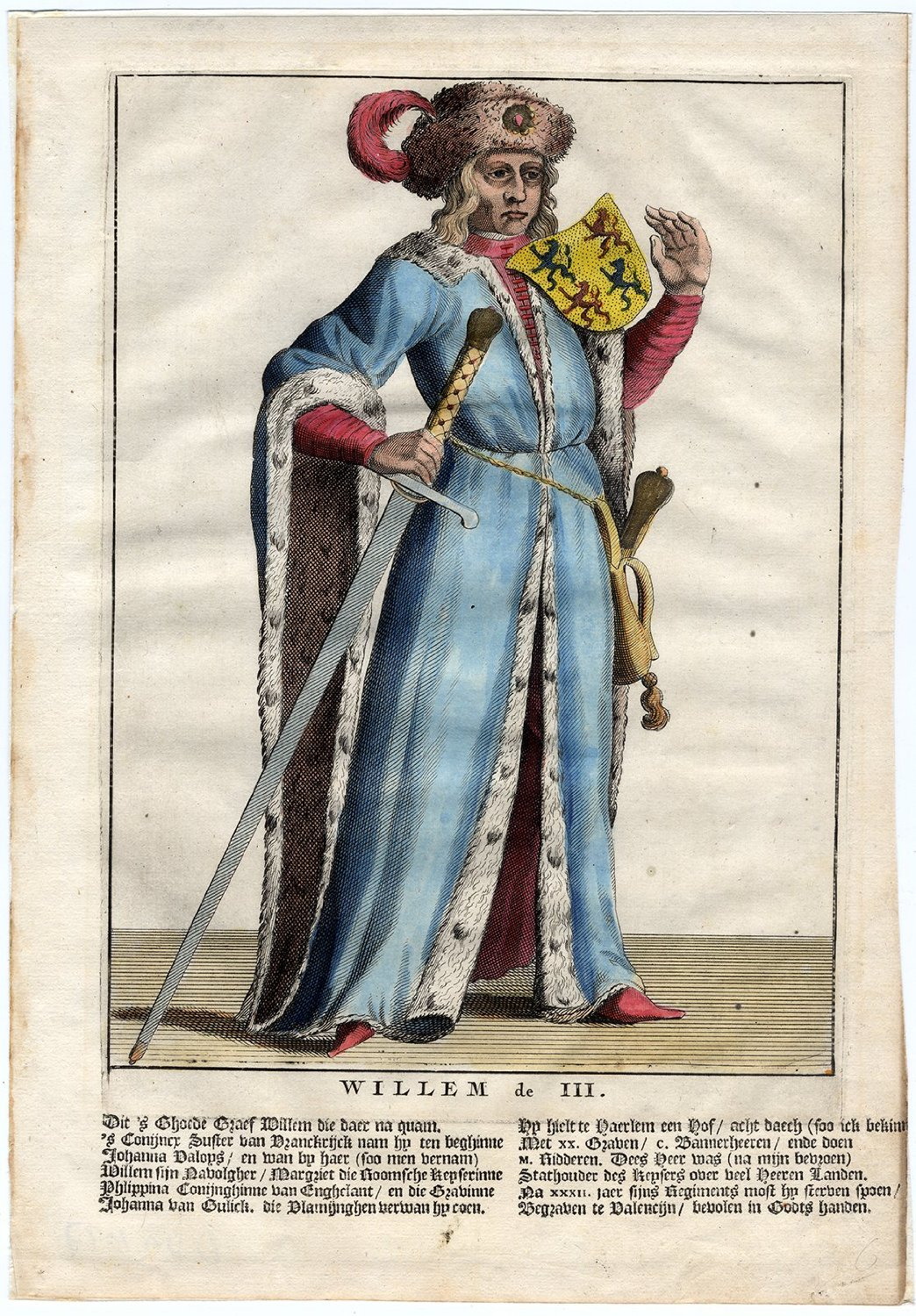 William III of Holland